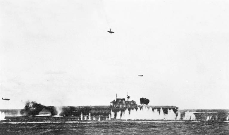 A Japanese Type 99 Aichi D3A1 dive bomber (Allied codename "Val") trails smoke as it dives toward the U.S. Navy aircraft carrier USS Hornet (CV-8), during the morning of 26 October 1942. This plane struck the ship's stack and then her flight deck. Two Type 97 Nakajima B5N2 torpedo planes ("Kate") are flying over Hornet after dropping torpedoes. Note anti-aircraft shell burst between Hornet and the camera, with its fragments striking the water nearby.